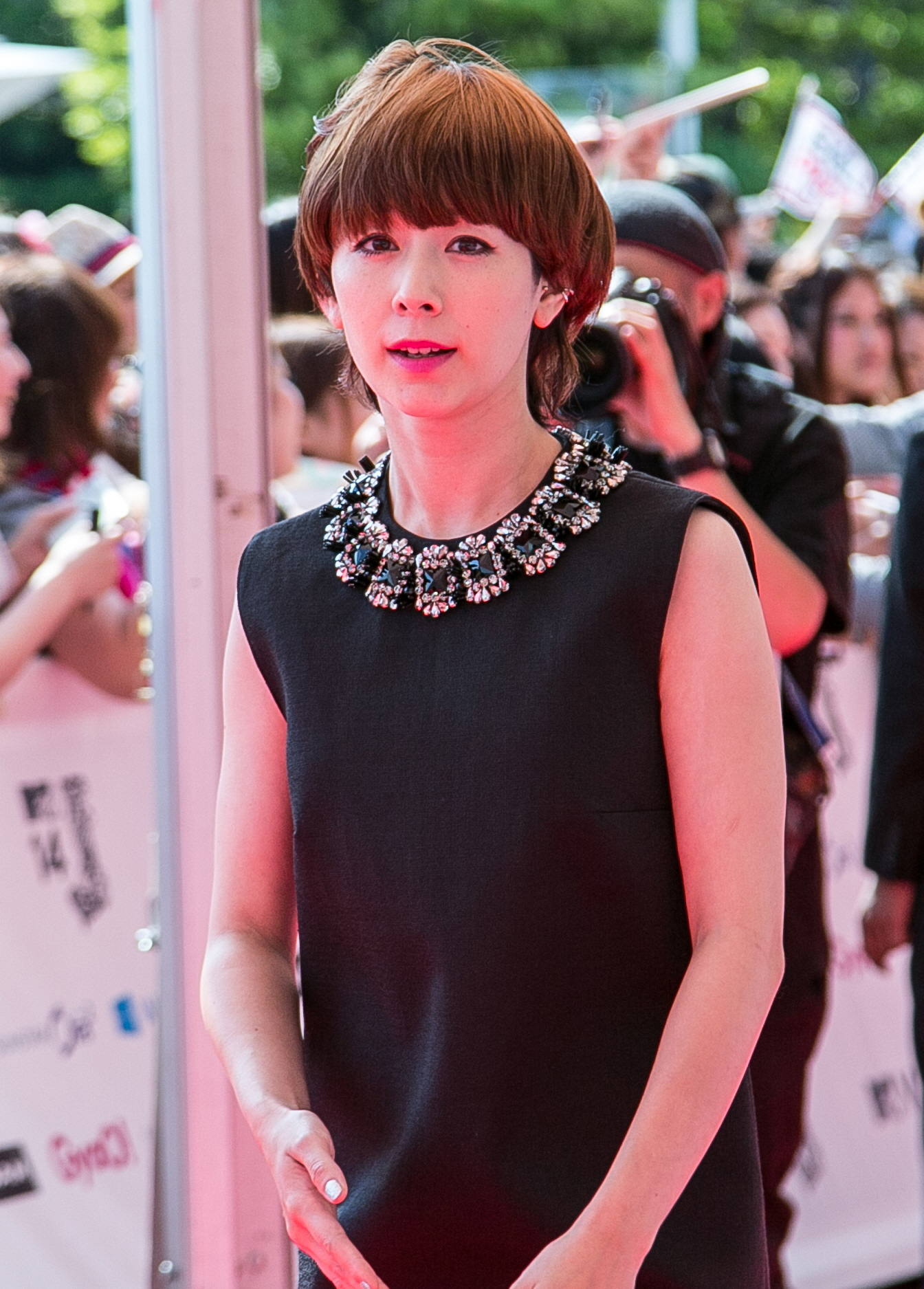 Kaela Kimura at MTV VMAJ 2014